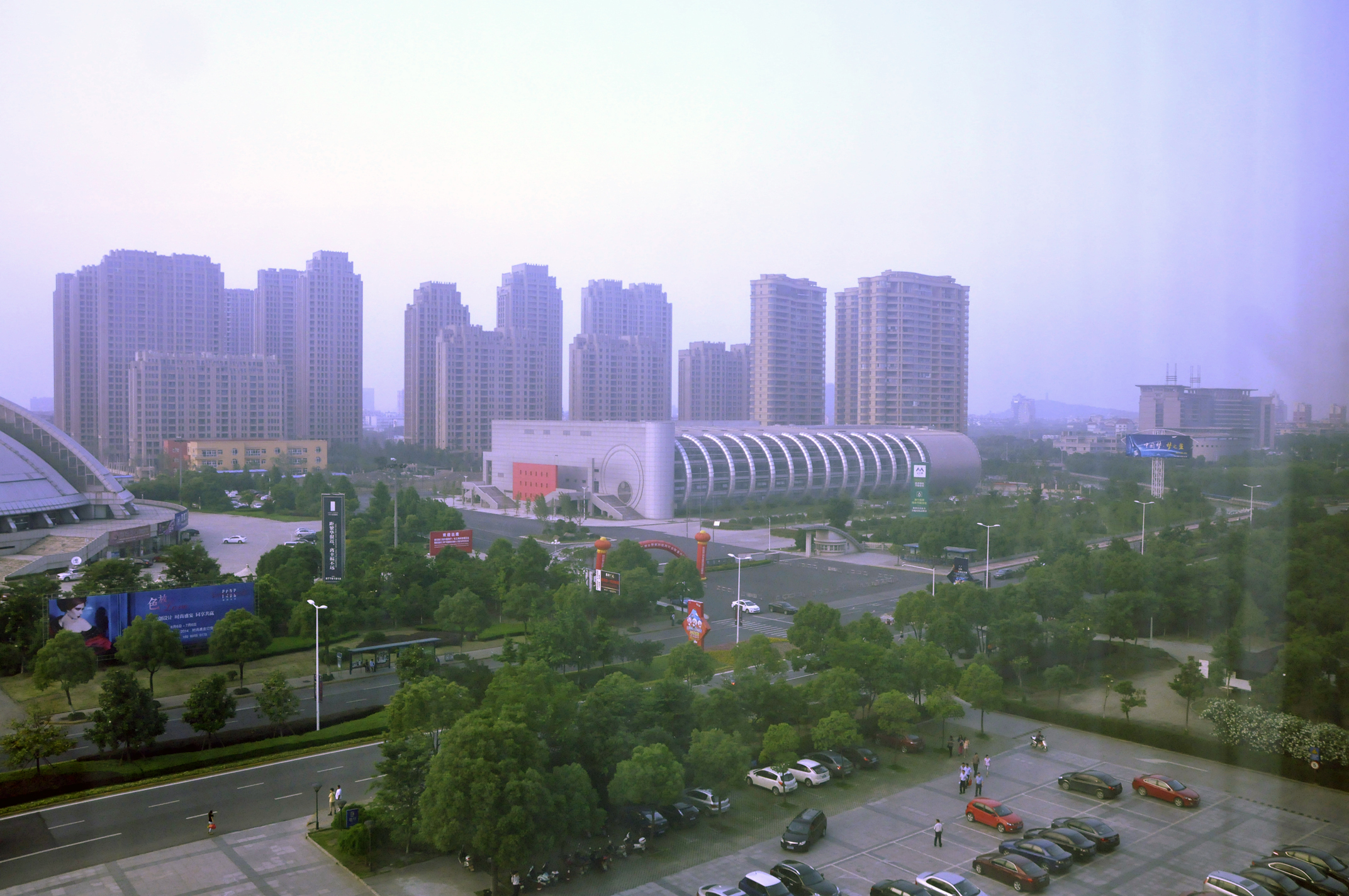 Haining Swimming Center 海宁市游泳馆